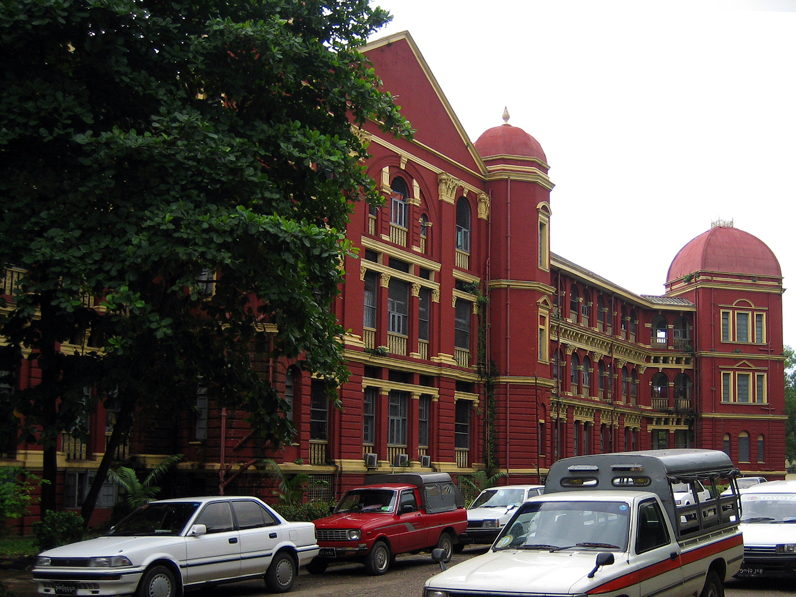 General Hospital in Yangon, Myanmar (Rangoon, Burma). The security guard saw me take pictures and promptly kicked me out.